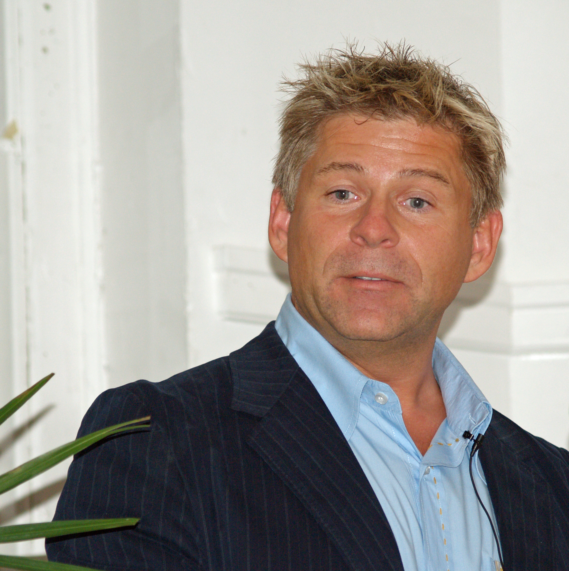 Anthony Bidulka by David Shankbone